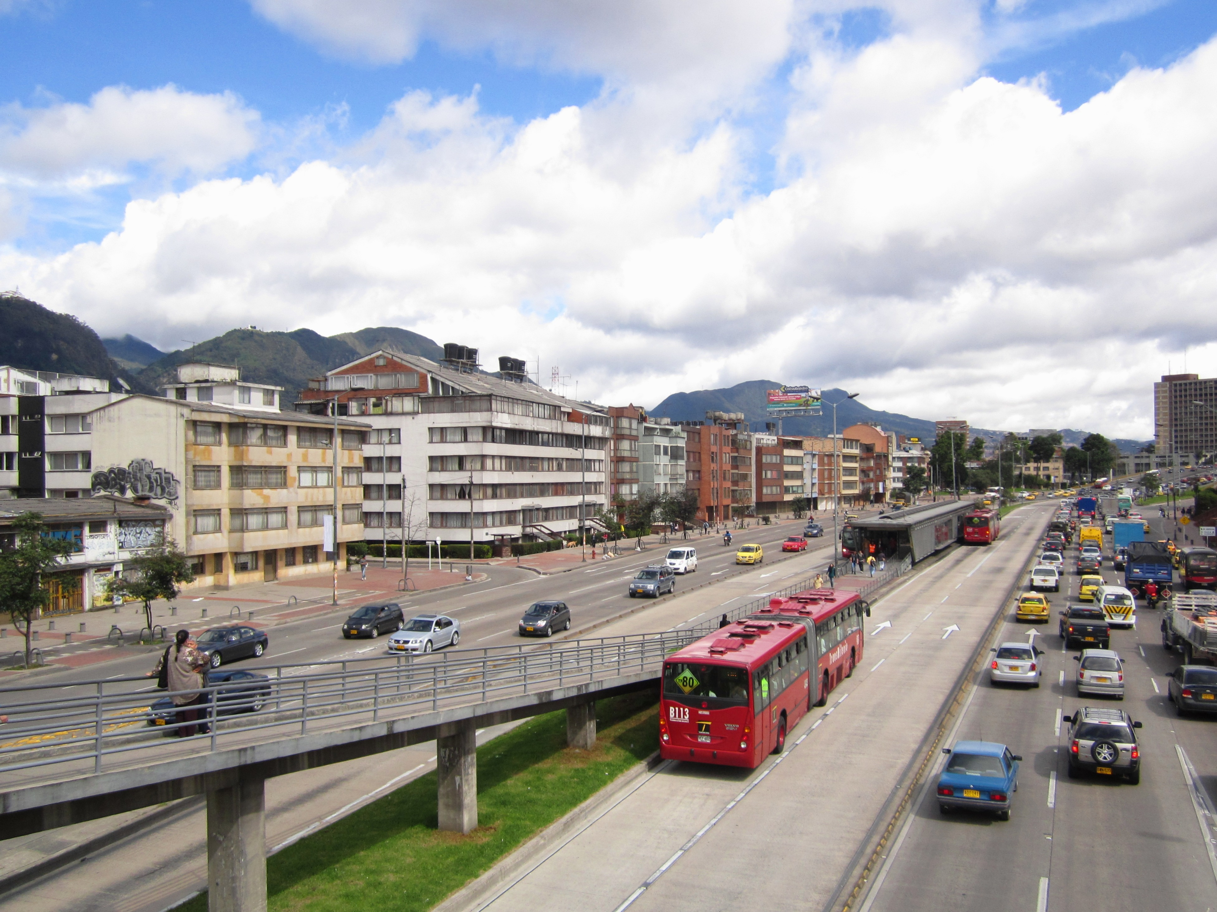 Bogotá